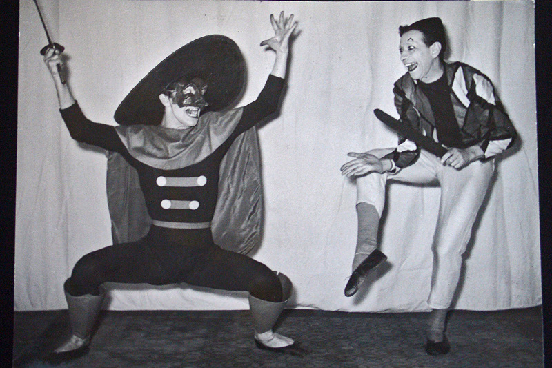 Mime artist Jean Soubeyran (right) as "Harlequin"